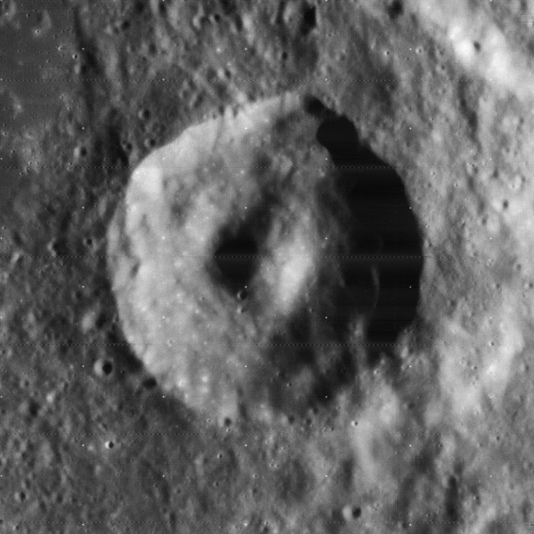 Alpetragius, on the moon.